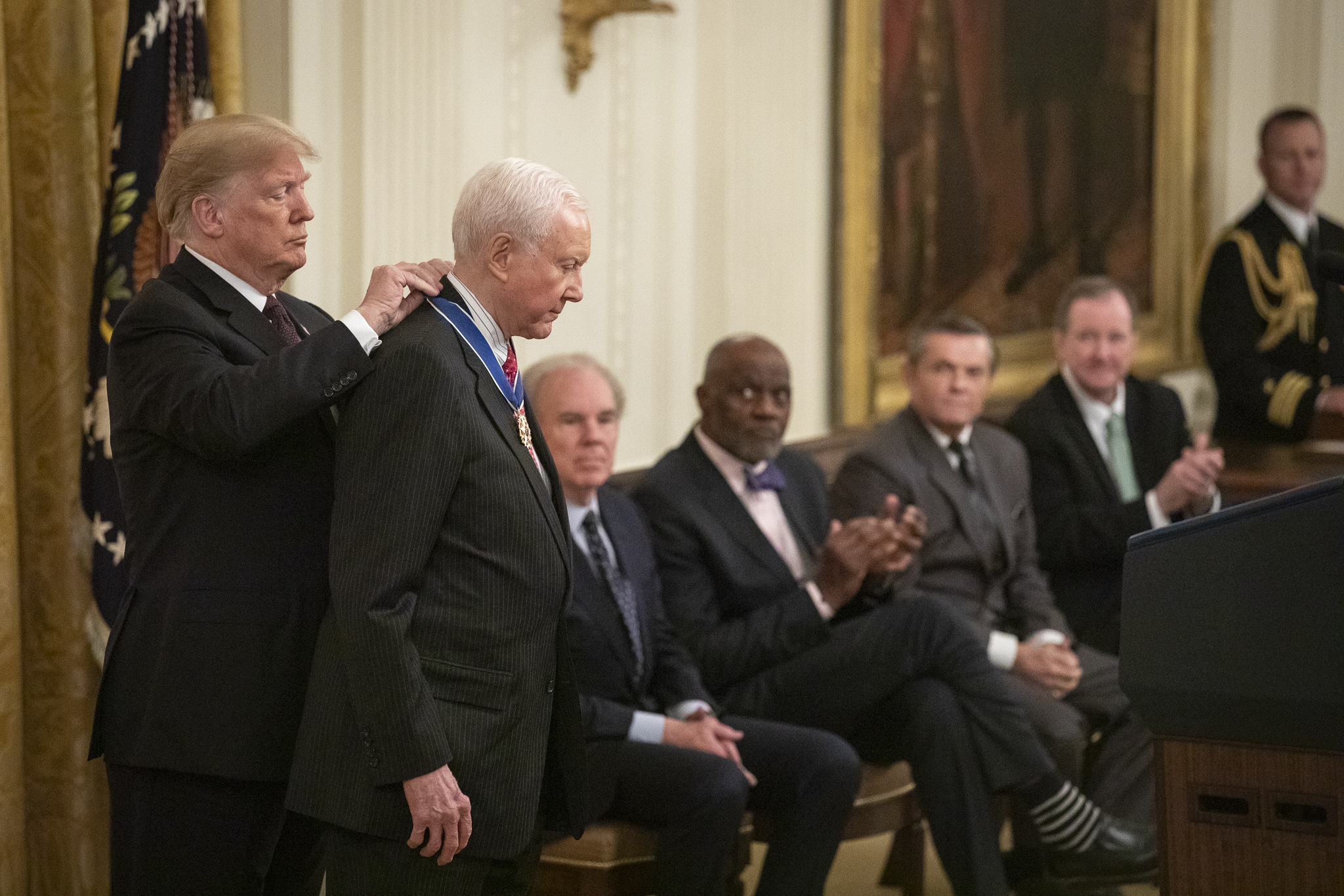 President Donald J. Trump presents the Medal of Freedom Friday, Nov. 16, 2018, in the East Room of the White House. First Lady Melania Trump attends. (Official White House Photo by Amy Rossetti)